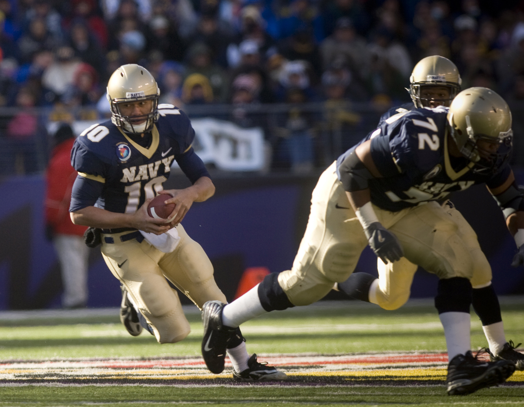 BALTIMORE, Md. (Dec. 1, 2007) Naval Academy Midshipmen Quarterback Kaipo-Noa Kaheaku-Enhada (10) rushed for 27 yards during the Midshipmen's 38-3 victory at the 108th playing of the Army-Navy football game, M&T Bank Stadium, Baltimore, Md., Dec. 1, 2007. U.S. Navy photo by Mass Communication Specialist 1st Class Chad J. McNeeley (Released).